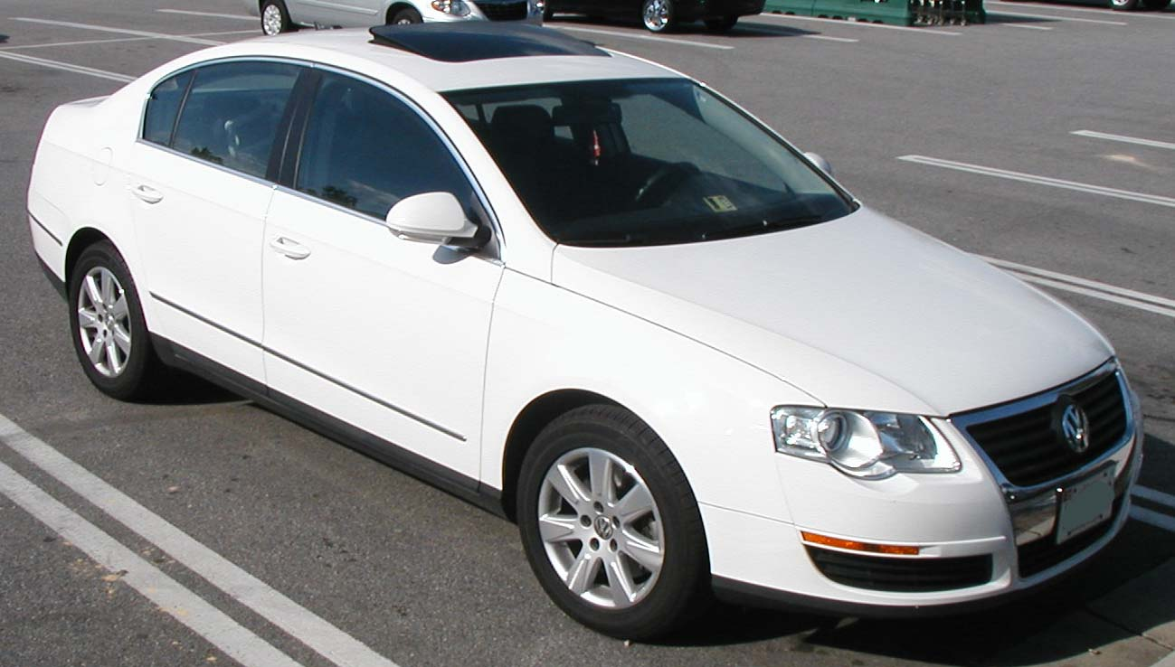 2006 Volkswagen Passat photographed in USA.